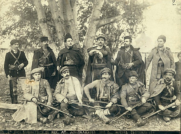 First MAVC Guerilla Platoon under Mihail Dumbalakov - in the middle, 17 September 1912